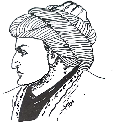 An imaginary sketch of Sultan Mehmed the Conqueror in his youth.